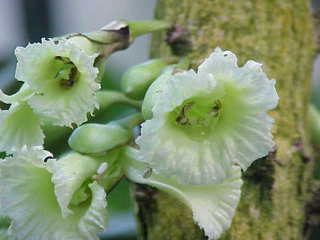 Species: Amphitecna macrophylla Family: Bignoniaceae Image No. 3